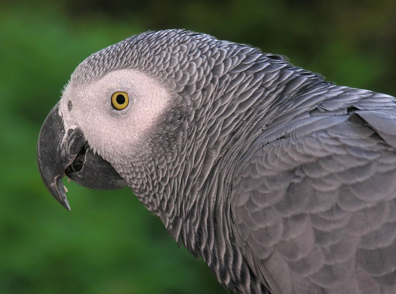 Congo African Grey parrot - showing head and neck in detail.